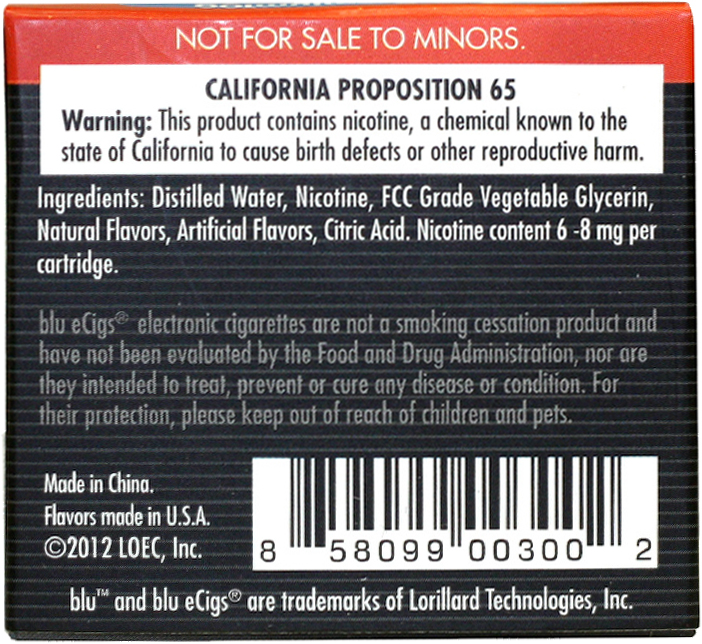 Cartridge ingredients of Blu Cigs electronic cigarette.